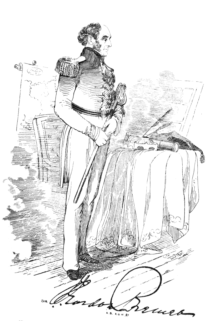 Gordon Bremer